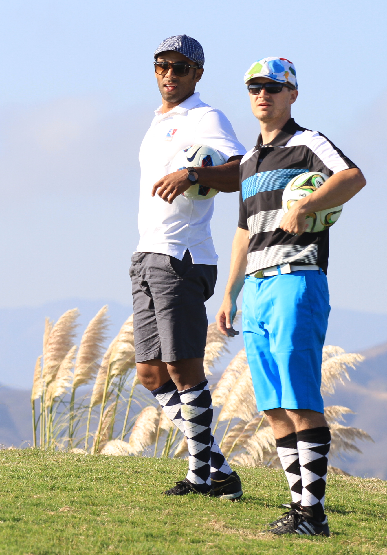 American FootGolf League Players with Classic Uniforms at U.S. Pro-Am Tour 2014 AFGL.US